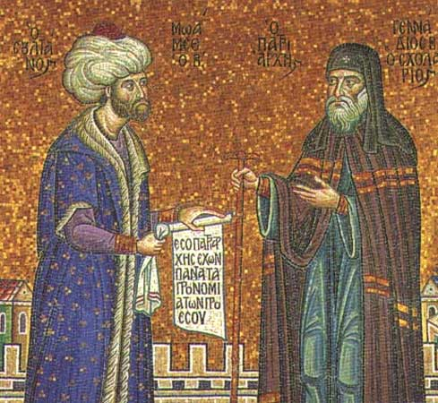 Gennadios Scholarios with Mehmet II